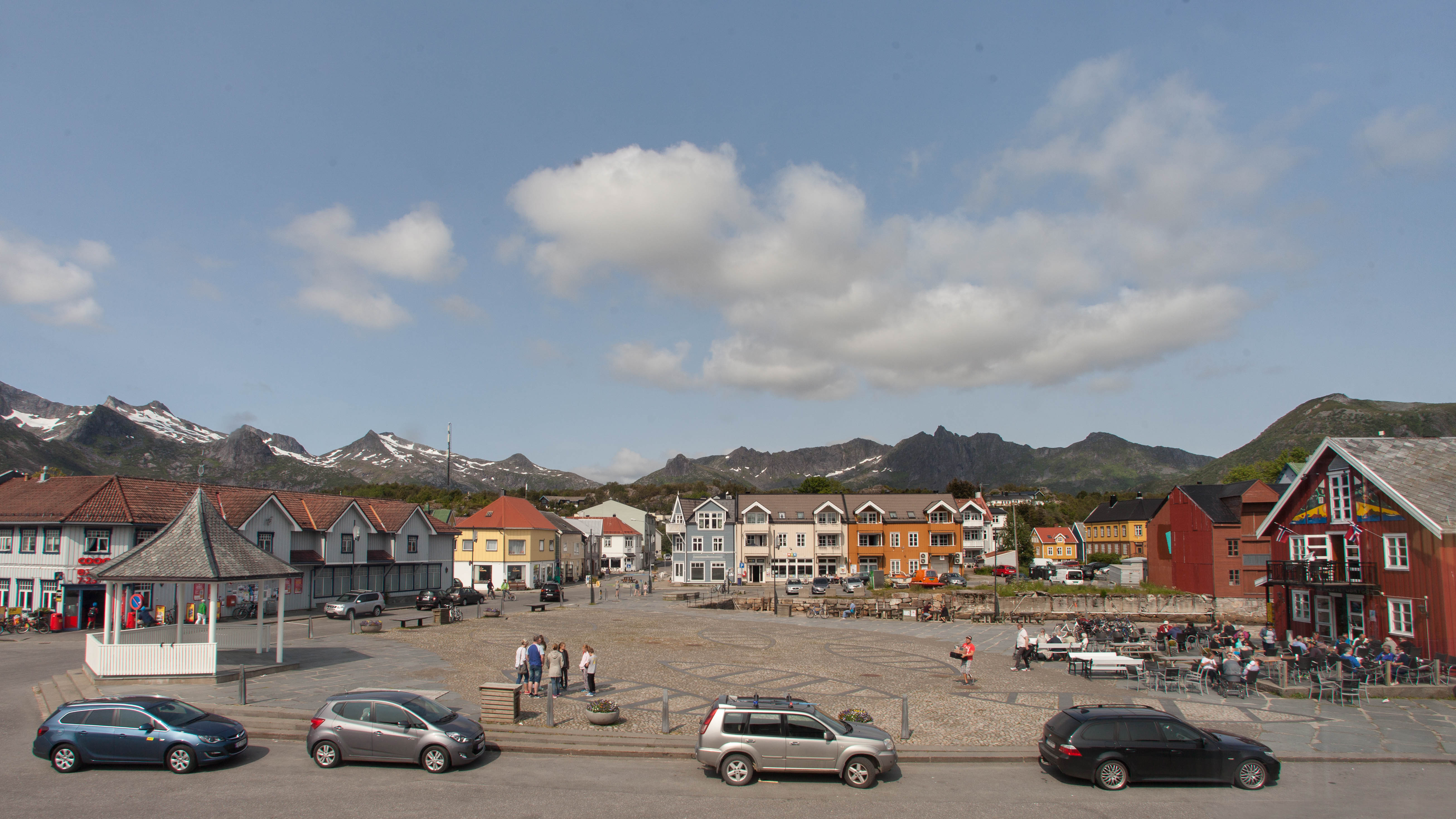 Kabelvåg central square